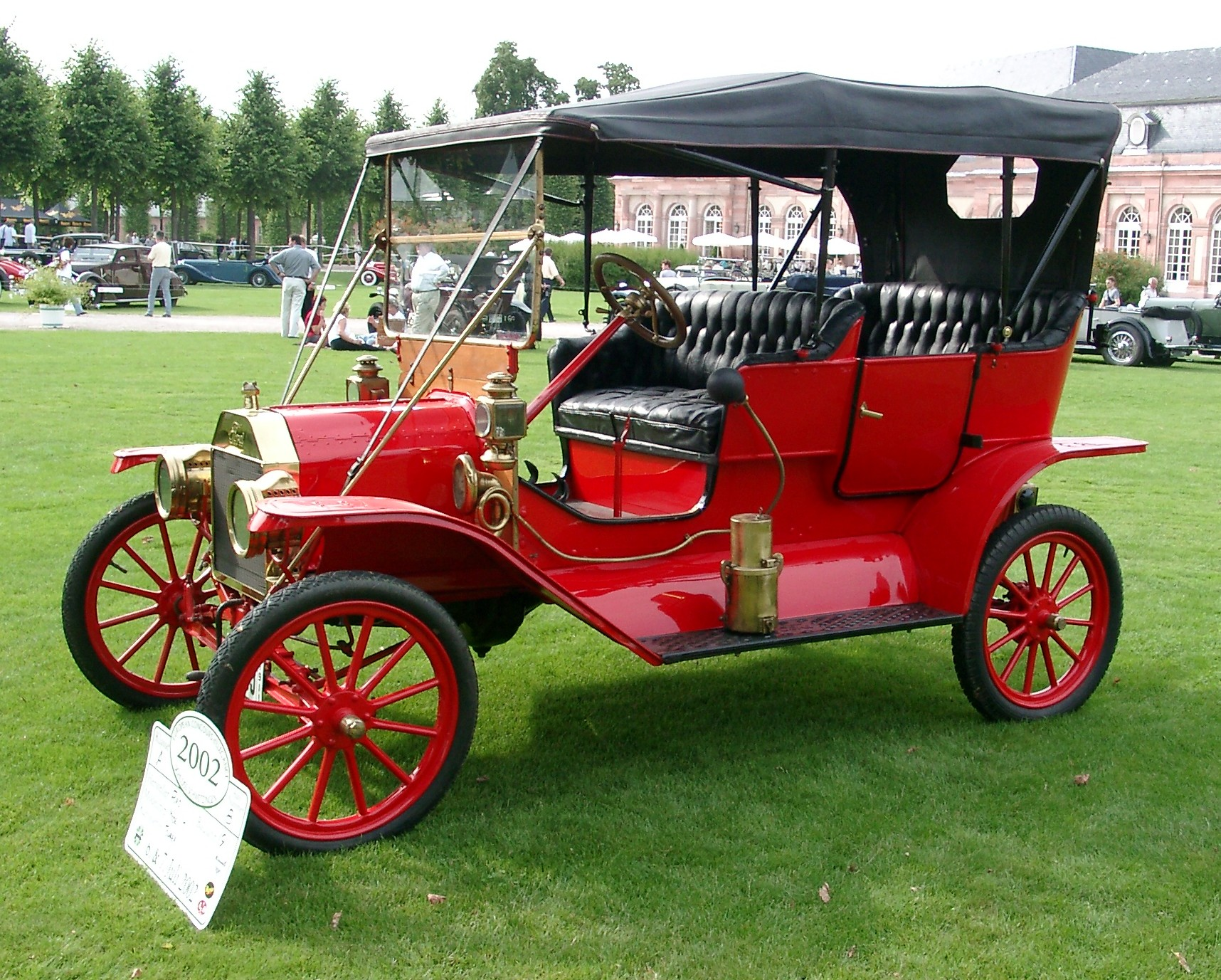 1911 Ford Model T Touring Car at the European Concours d'Elegance 2002 in Schwetzingen.